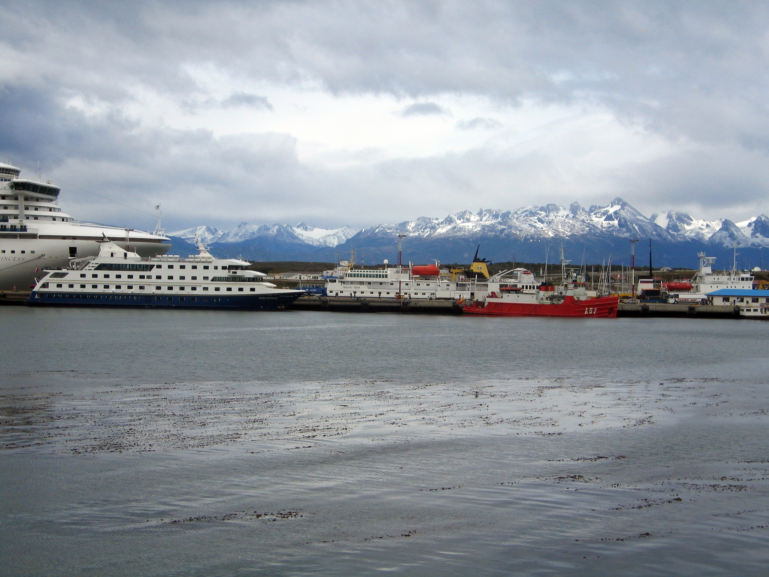 View of Ushuaias's port